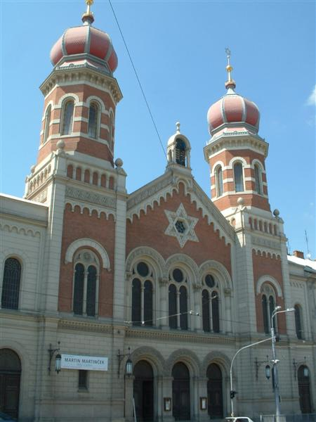 Great Synagogue in Pilsen